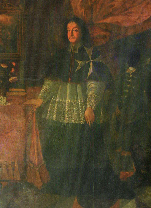 Don Diego Pappalardo portrait